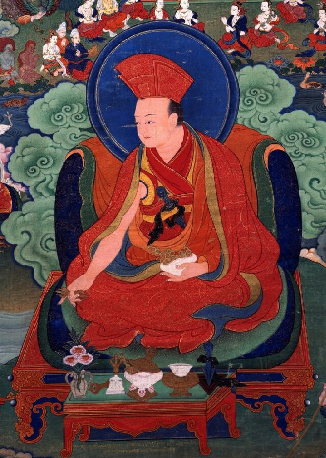 Namkha Pelzang b.1398 - d.1425, eleventh abbot of Ralung Monastery, Tibet